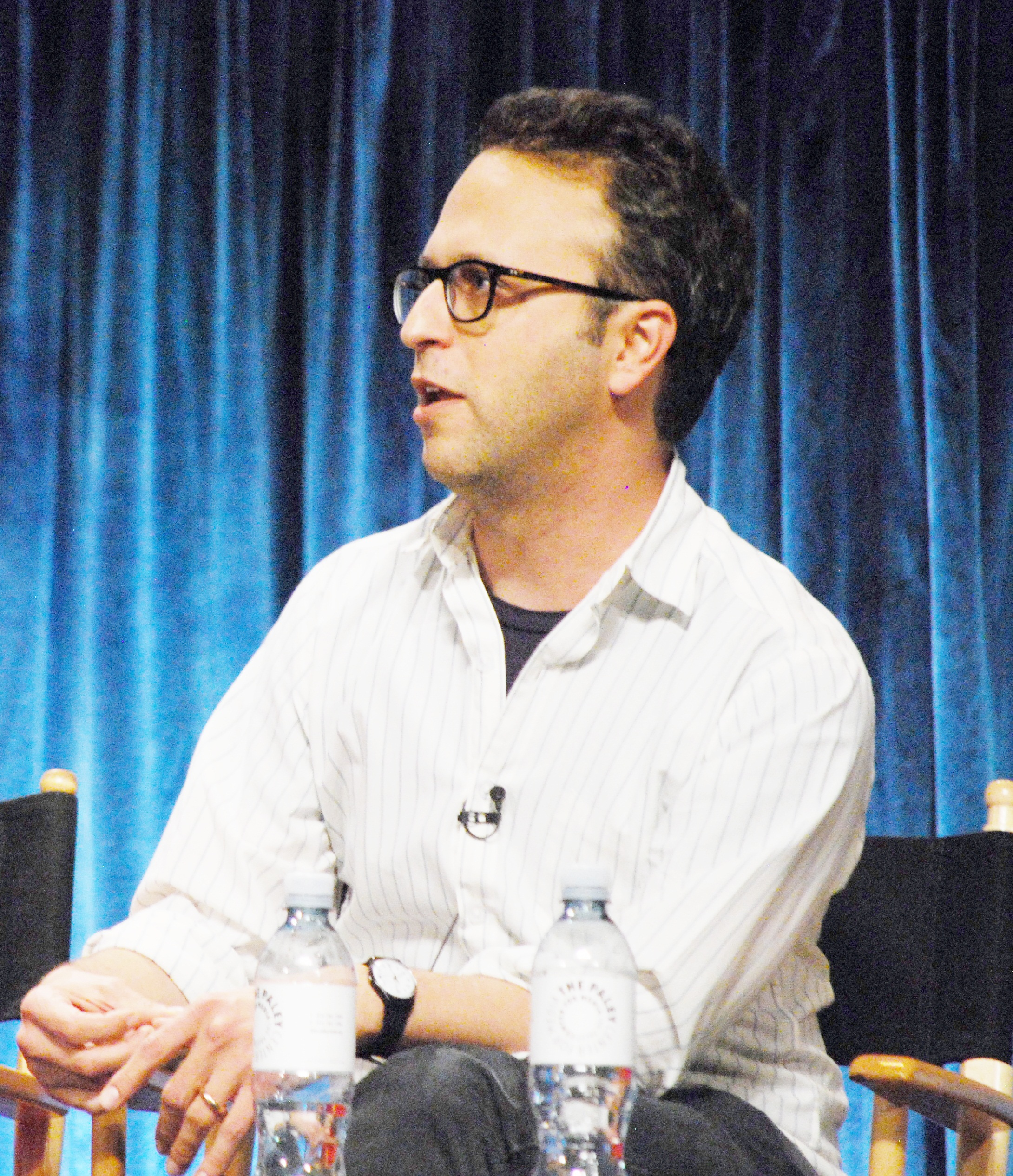 Jake Kasdan at Paleyfest 2012: New Girl